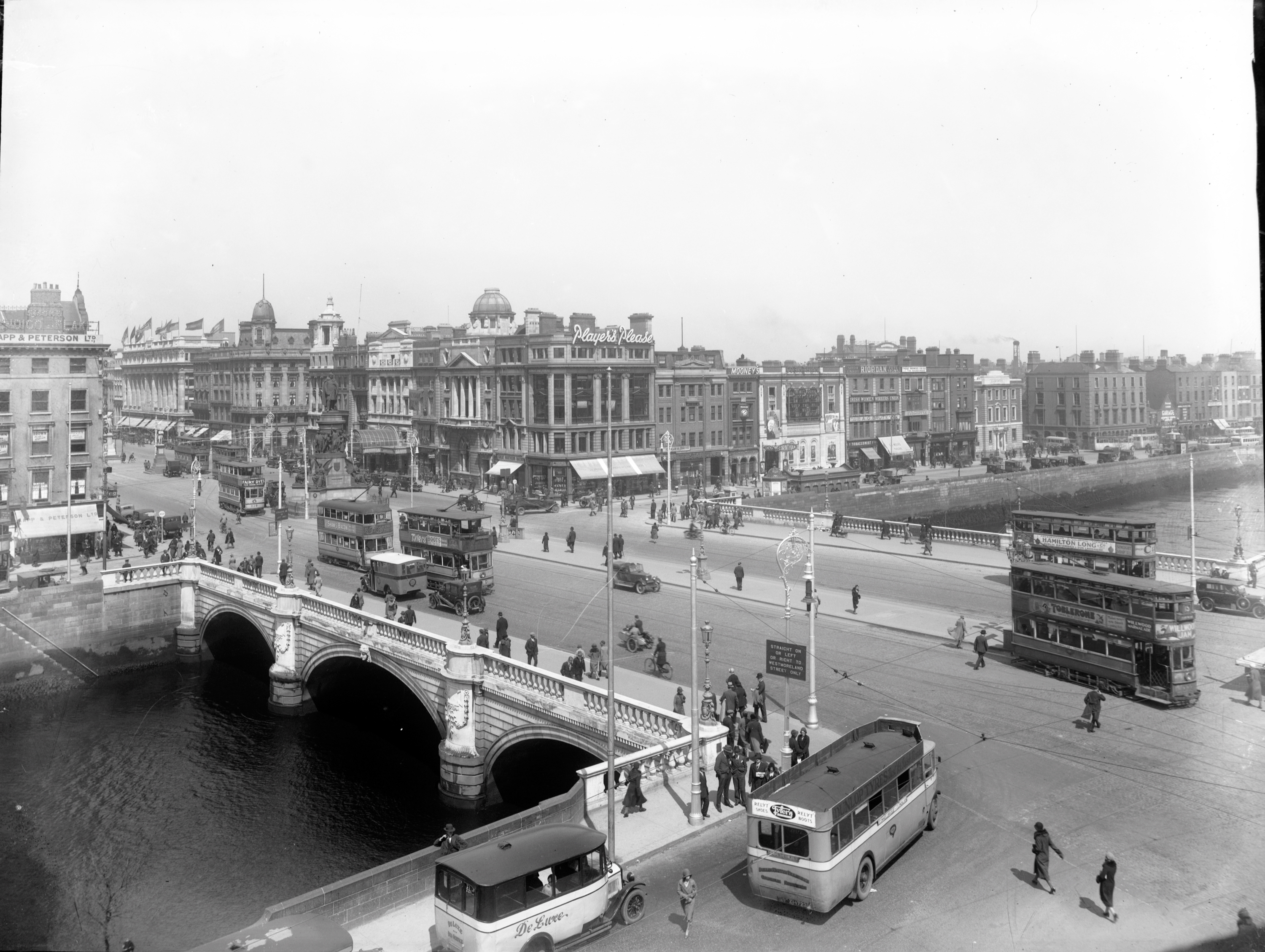 O'Connell Bridge in the heart of Dublin - we've been here before, but I'm completely unapologetic, because this is so great - a motorbike with sidecar being just one of the gems! Date: Circa 20th May to 4th June 1932 (from Over the Hill playing at the Corinthian Cinema) NLI Ref.: EAS_1742